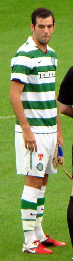 Joe Ledley. Image cropped from original at flickr.